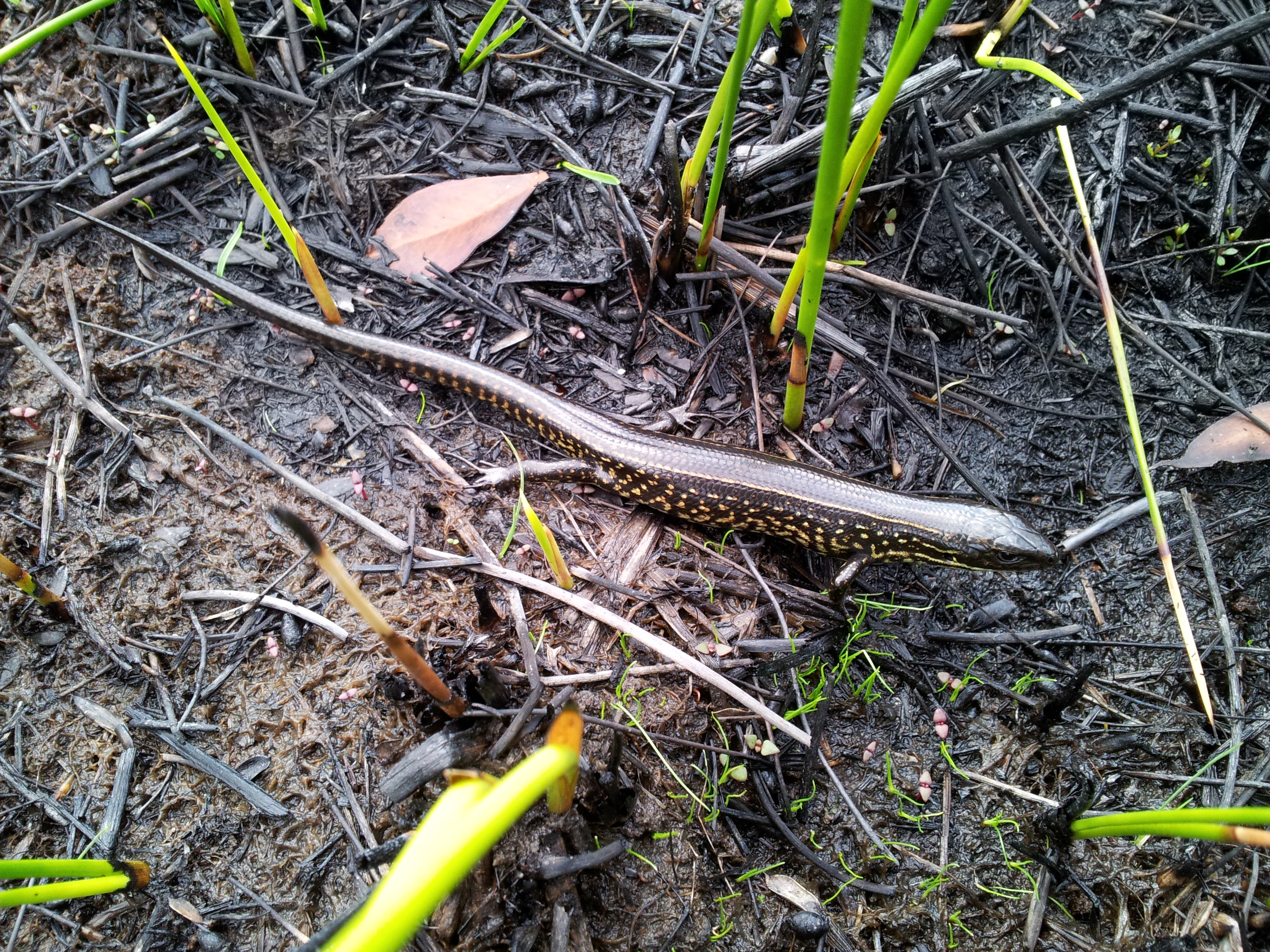 The endangered Blue Mountains Water Skink. Photo taken a month after a bushfire.